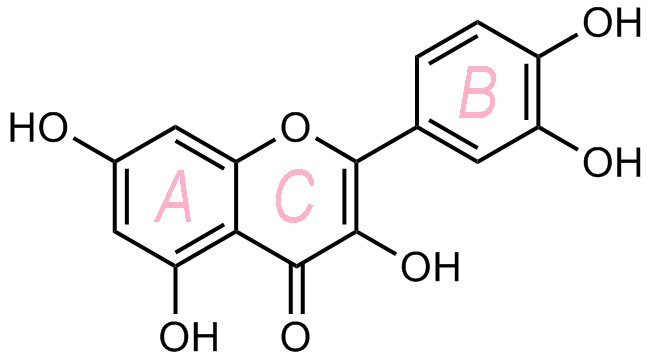 Quercetin Rings Names